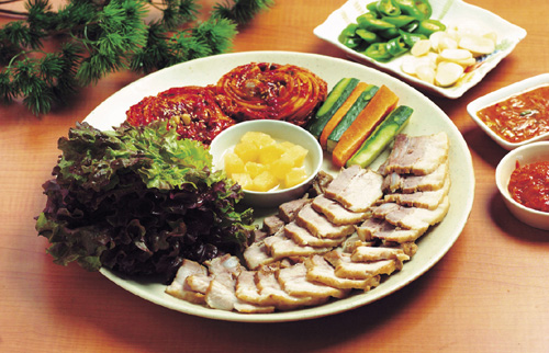 Bossam is thin slices of boiled pork, served (wrapped) with leaf vegetable such as kimchi, lettuce or sesame leaf. It is often accompanied by a condiment known as ssamjang and usually topped with raw or cooked garlic, onion, pepper, or sometimes raw oyster.